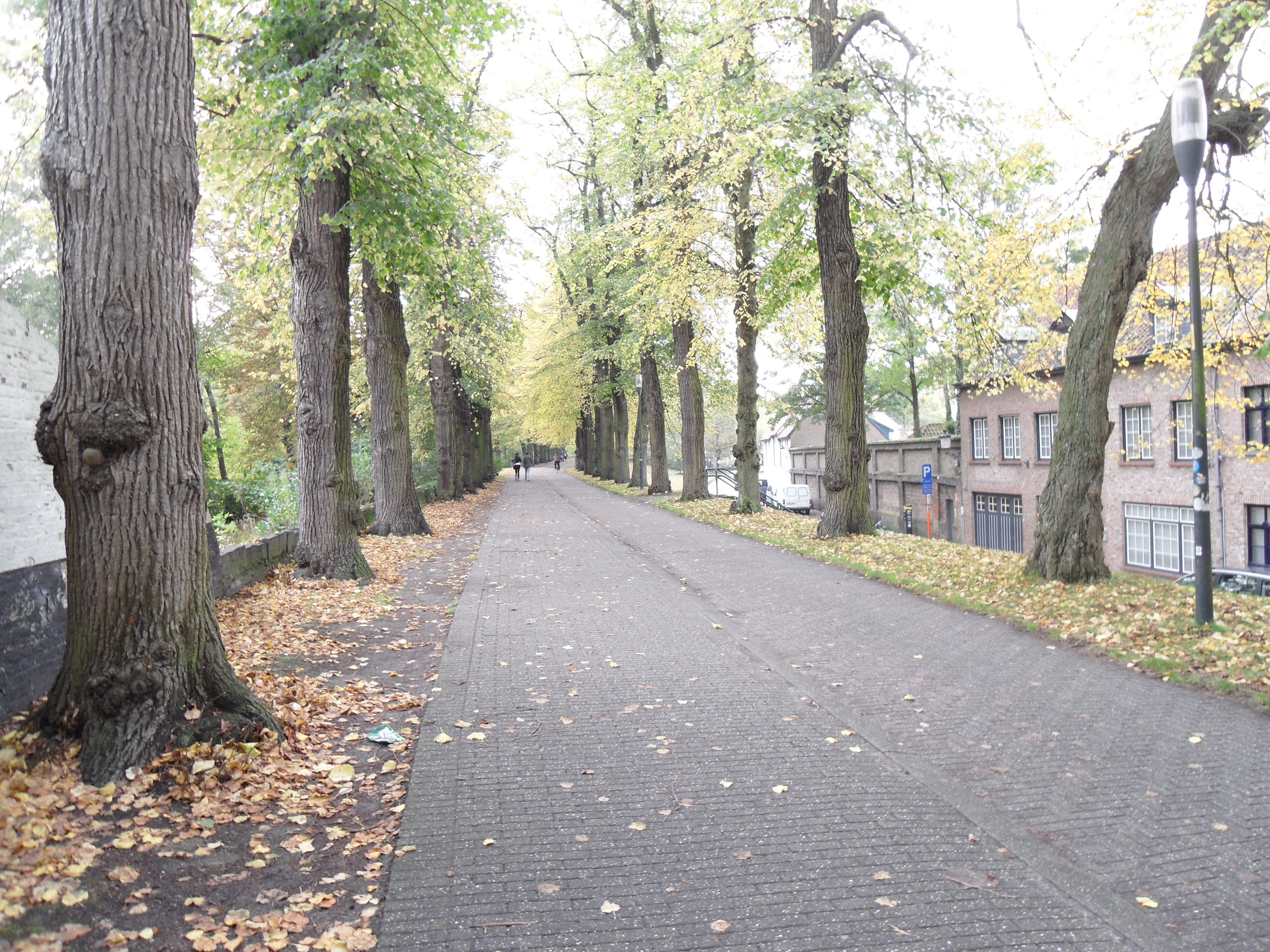 Katelijnevest